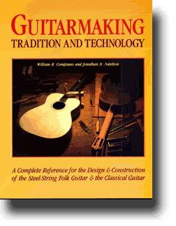 Cover of Guitarmaking: Tradition and Technology by William R. Cumpiano.